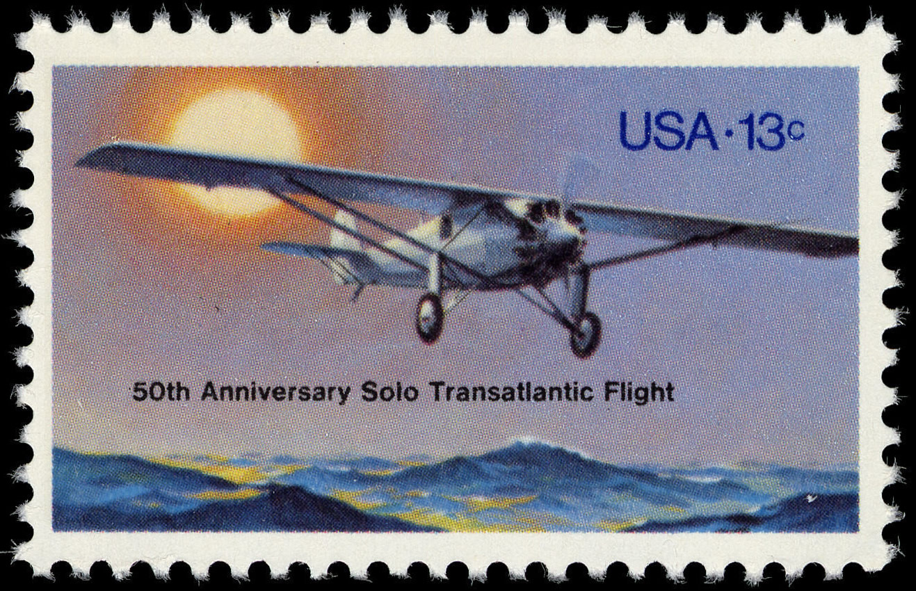 Lindbergh Flight Issue - 50th Anniversary Solo Transatlantic Flight - 13-cent 1977 U.S. stamp.